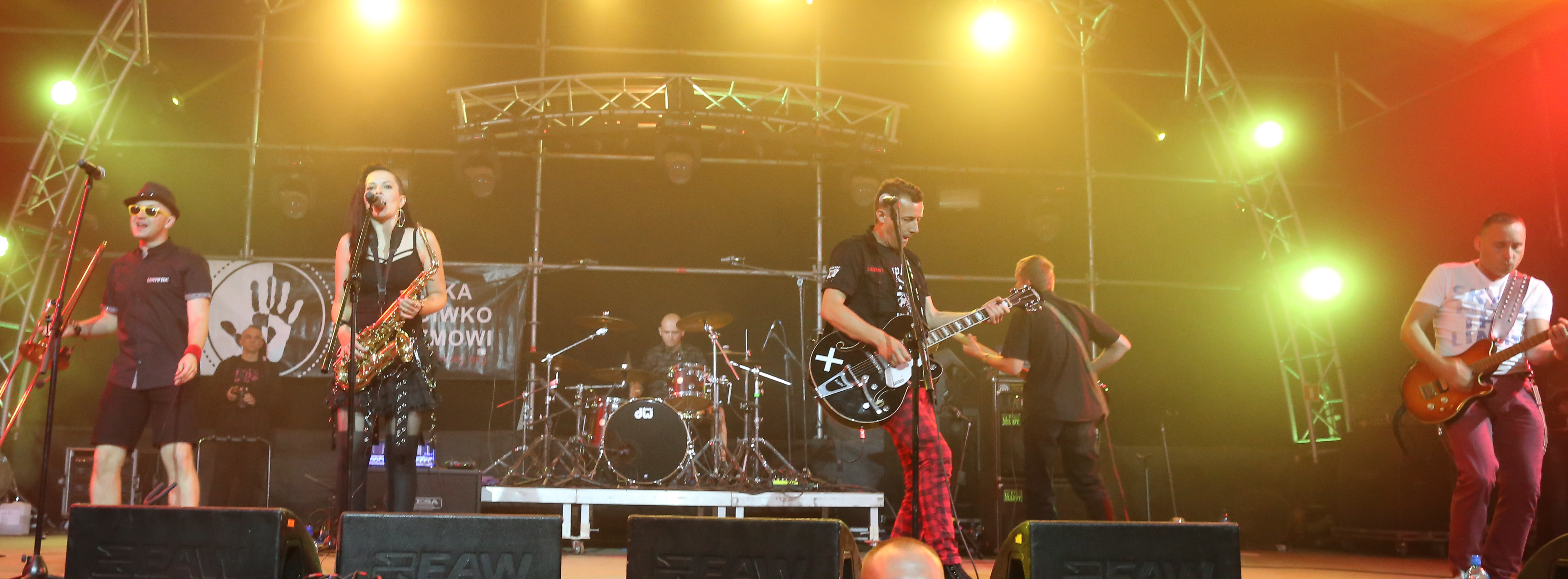 Przystanek Woodstock in 2017.